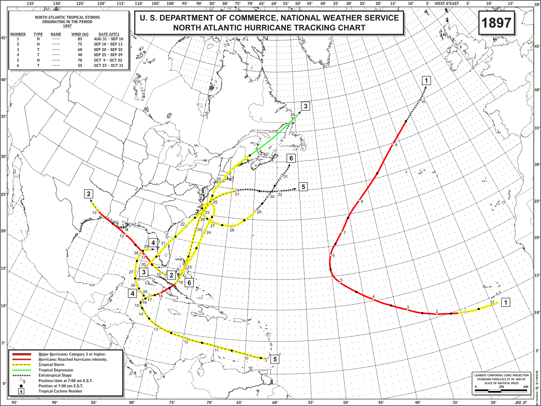 Season summary provided by NOAA of the 1897 Atlantic hurricane season.